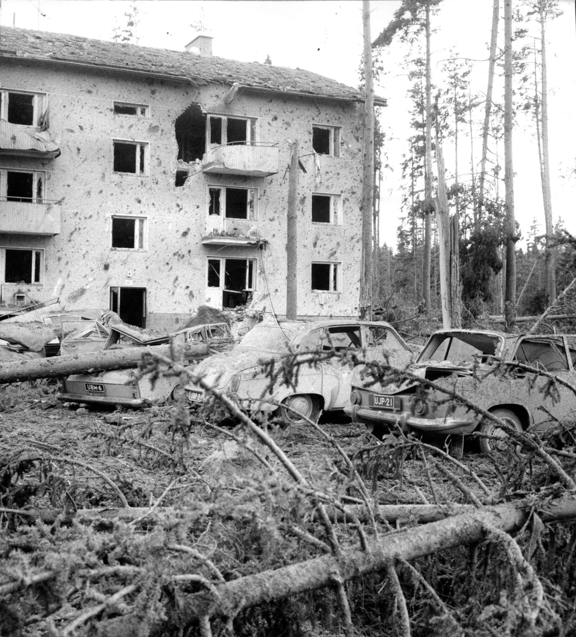 Photograph of the military apartment building near the Terrikallio explosion site.